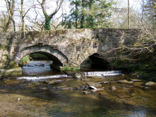 Afon Syfynwy at Farthing's Hook Bridge The river feeds the dam at Llys-y-fran a short distance below and subsequently becomes a tributary of the Eastern Cleddau. The bridge, which is named after a nearby large house, has been been pinned at some point but can barely cope with large vehicles.